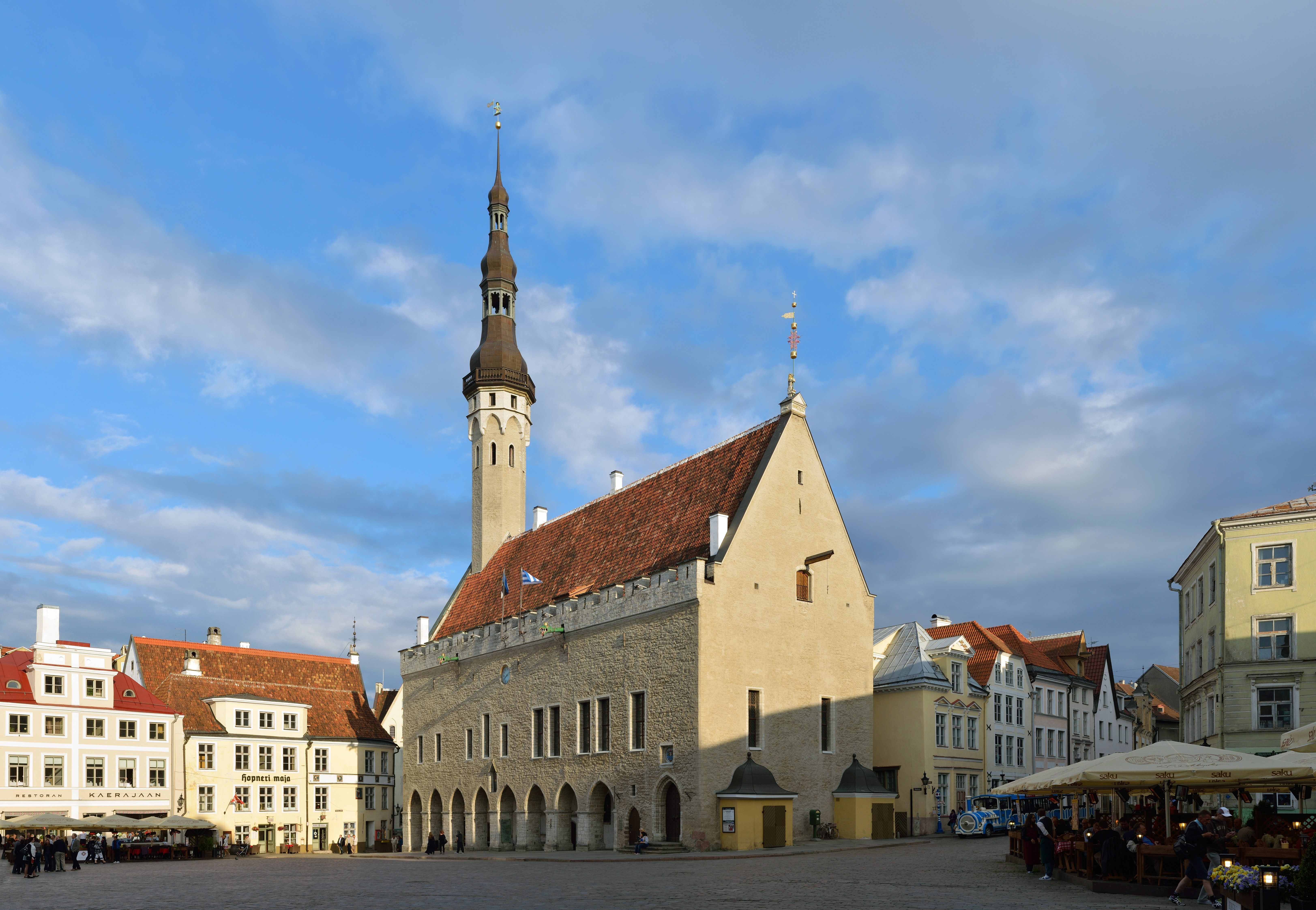 Tallinn Town Hall, built in 1402–1404, is oldest town hall in Scandinavia and Baltic states. Gothic pyramidal spire was replaced by a Late-Renaissance spire in 1627. A weather vane "Old Thomas" was put on top of the spire in 1530.